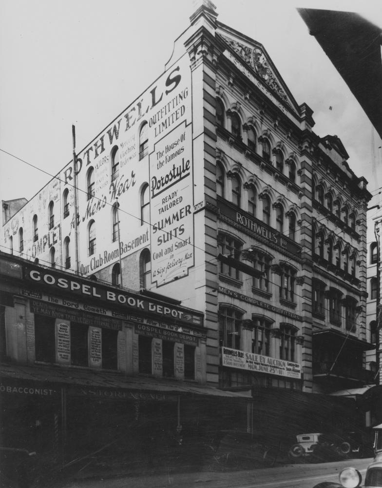 View of stores on Edward Street, Brisbane, 1934. The following stores are present: Gospel Book Depot, Astoria Cafe and Rothwell's Ltd.